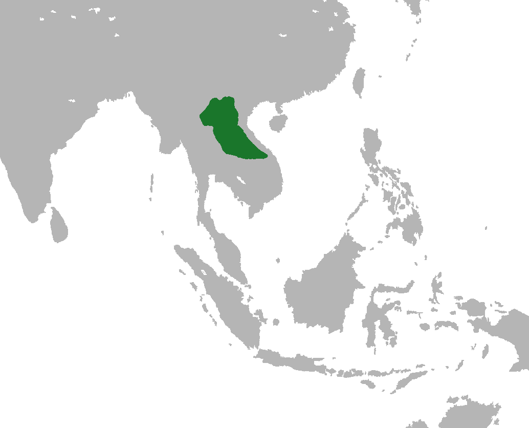 Location of the Lan Xang Kingdom